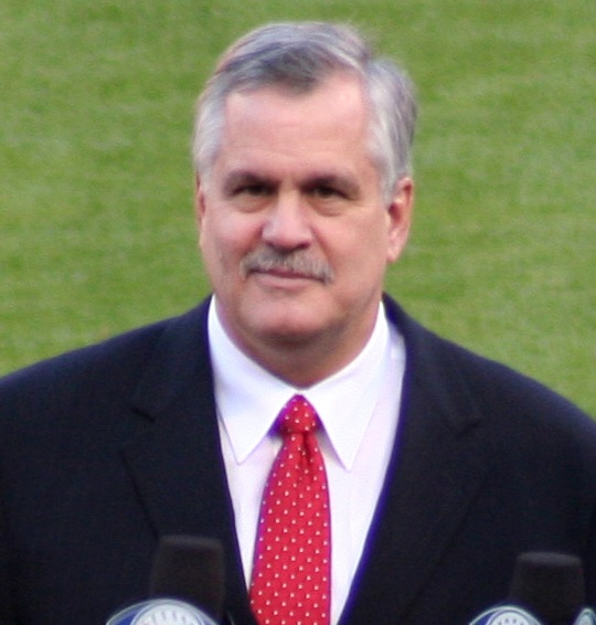 Matt Millen of the the NFL Network in San Francisco for Chicago Bears vs San Francisco 49ers, November 2009